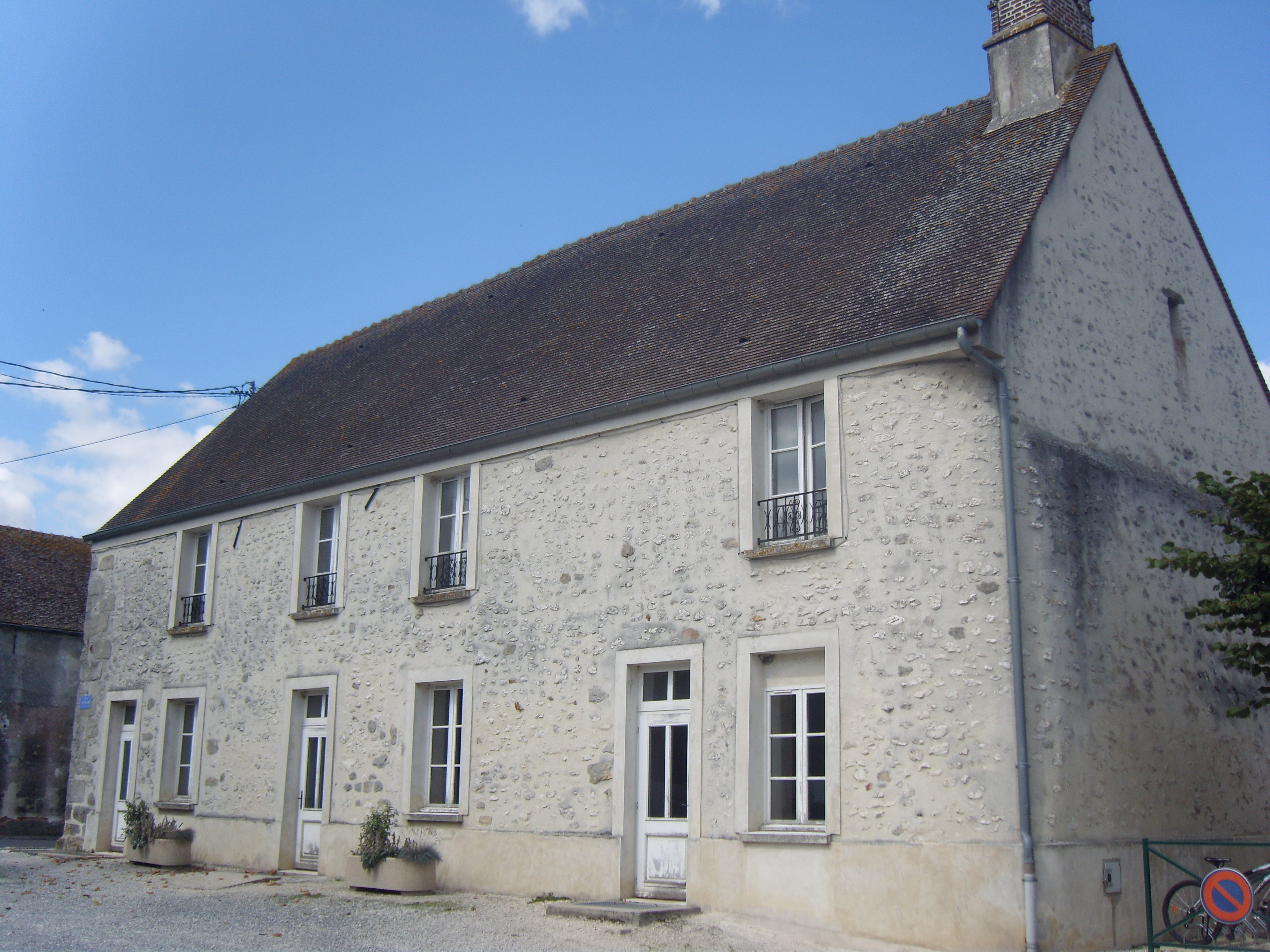 Former town hall of Jouy-le-Châtel